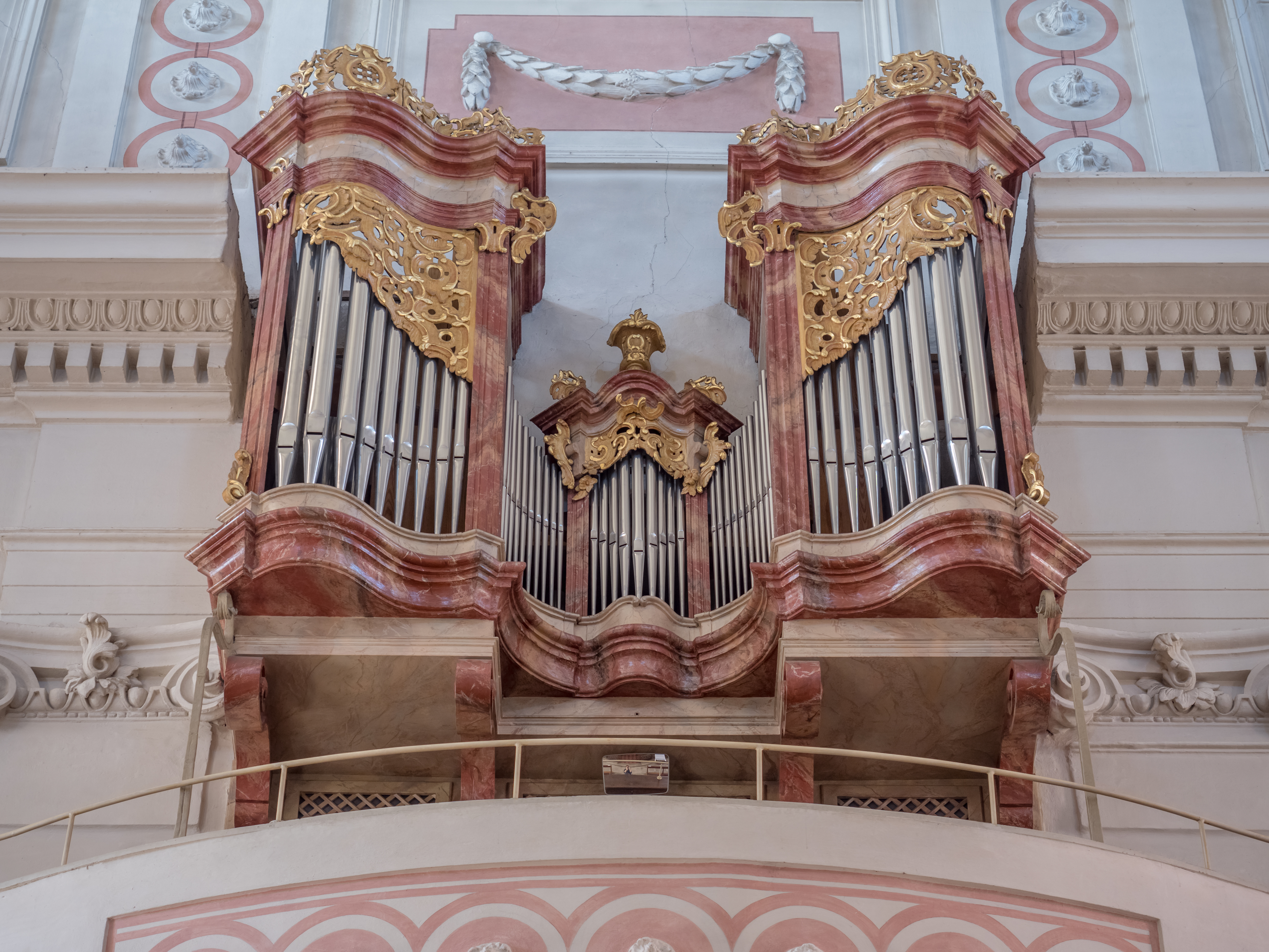 Pipe organ in the church St.Jakobus in Bad Kissingen